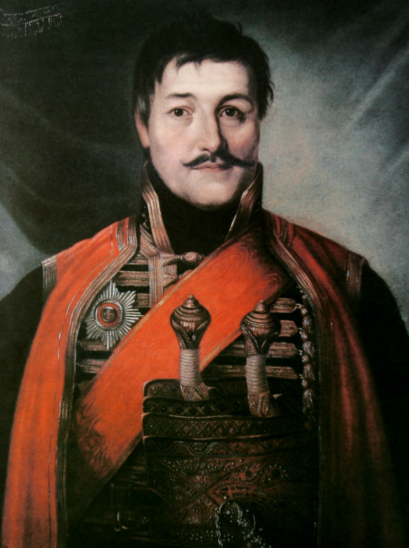 Painting of Karađorđe by Borikowski